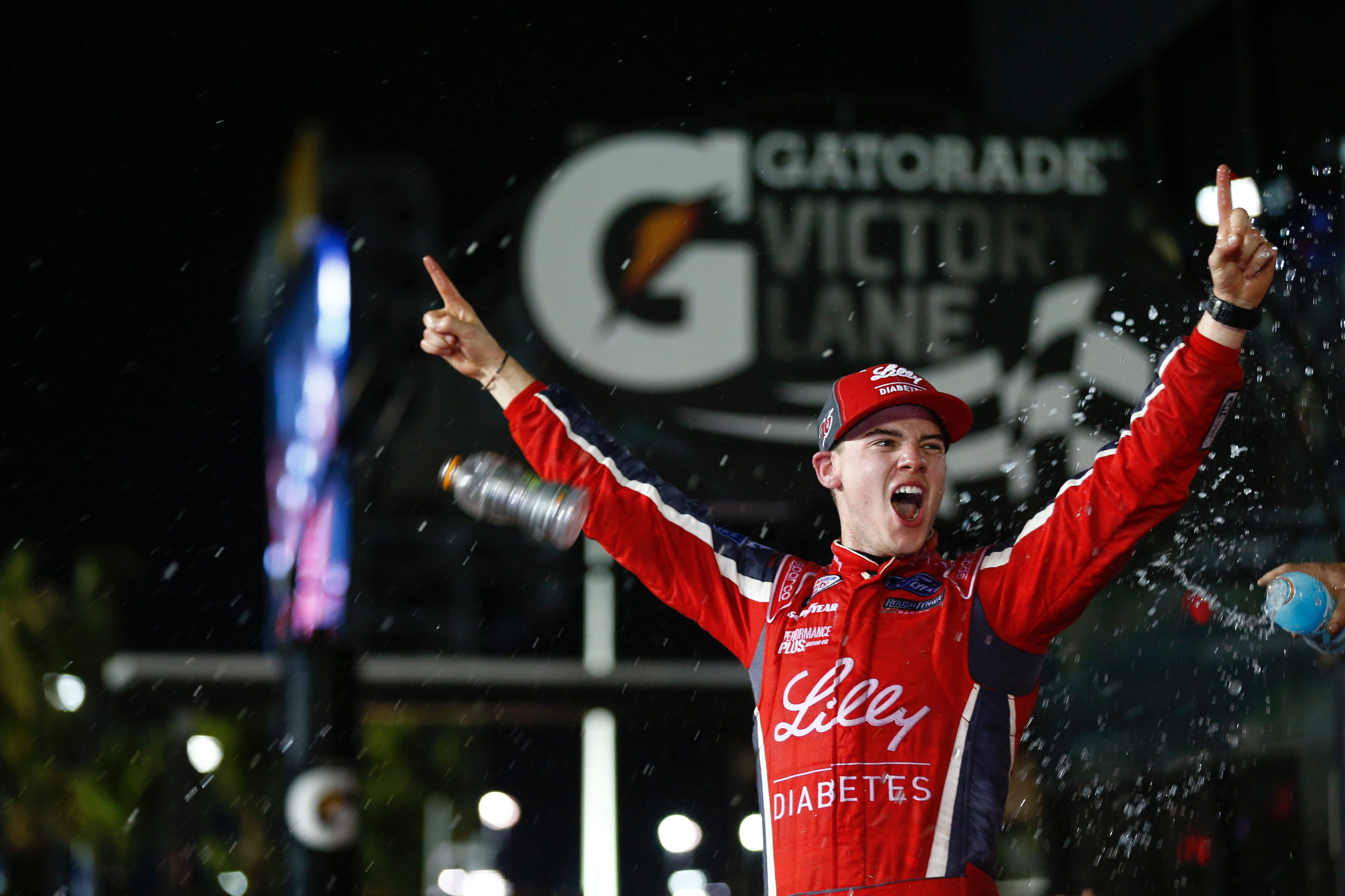 Ryan Reed after his second Daytona win.